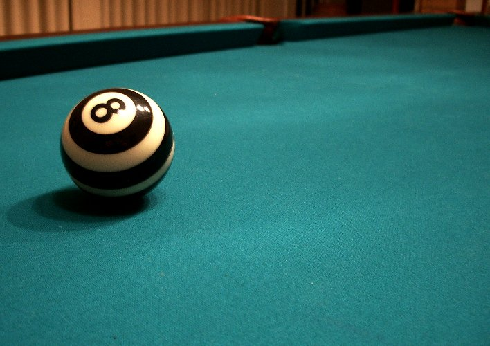 A striped 8 ball, to make the "money ball" in the game of eight-ball stand out better. While originally intended for use with novelty sports team logo ball sets (this 8 ball is intended to be reminiscent of refree uniforms), it is actually ideal for color-blind players, and arguably should be used in televised eight-ball tournaments, since it better distinguishes the 8 ball from the usually very dark 4, 7 and 6 balls.